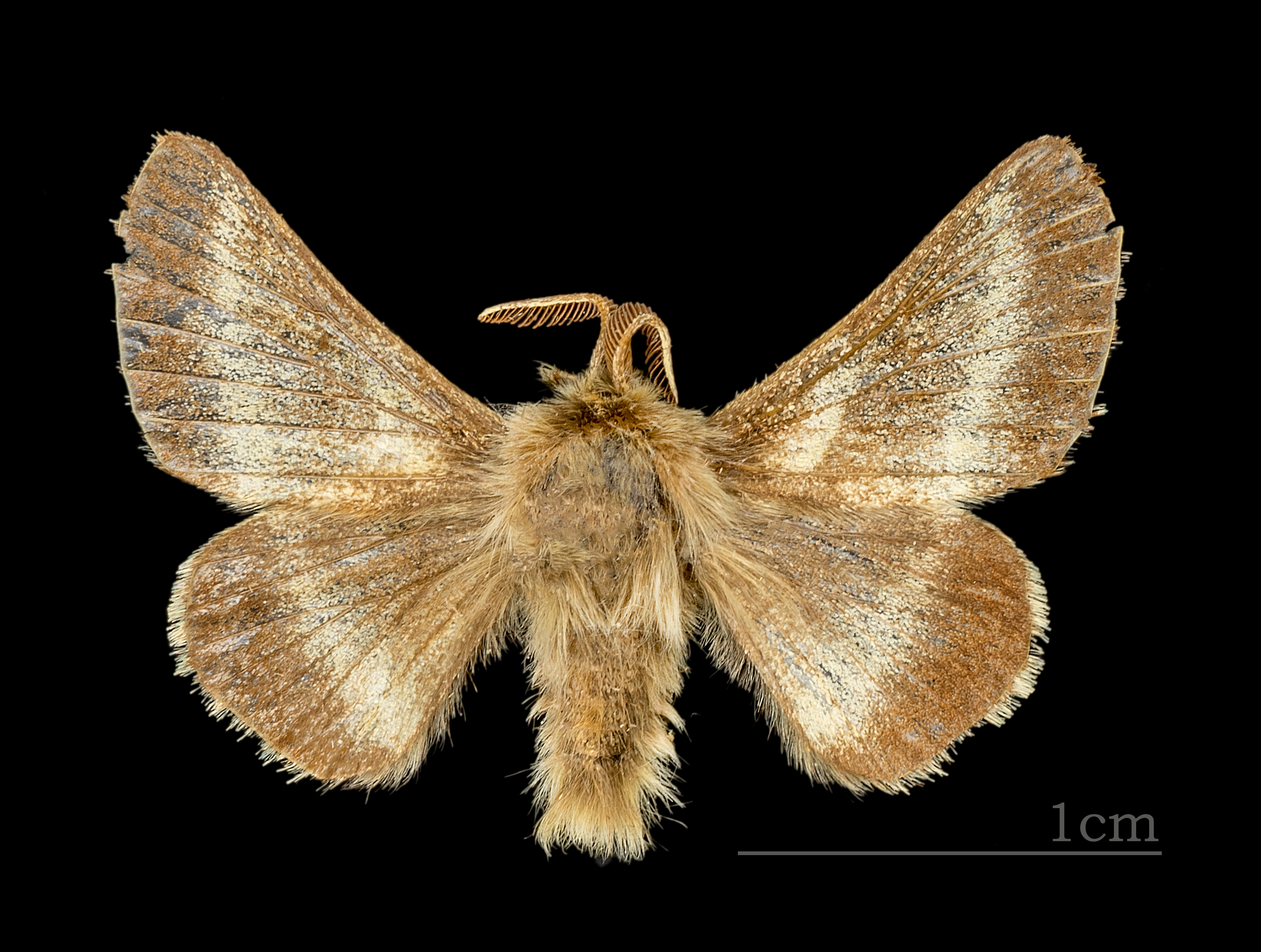 Malacosoma alpicolum - Dorsal side